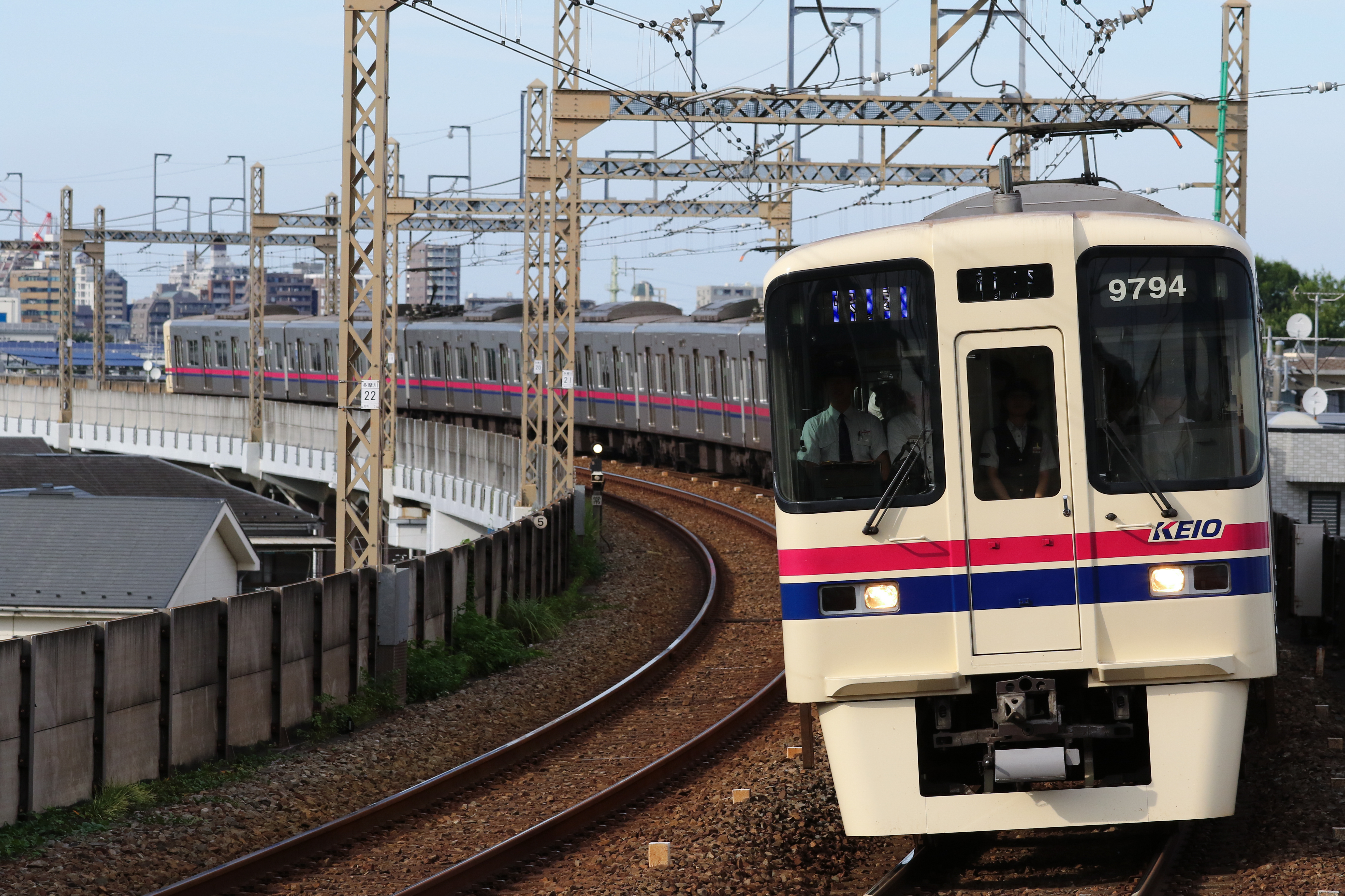 Keio 9000 series EMU set 9744 approaching Inadazutsumi Station on the Keio Line in Kanagawa Prefecture, Japan